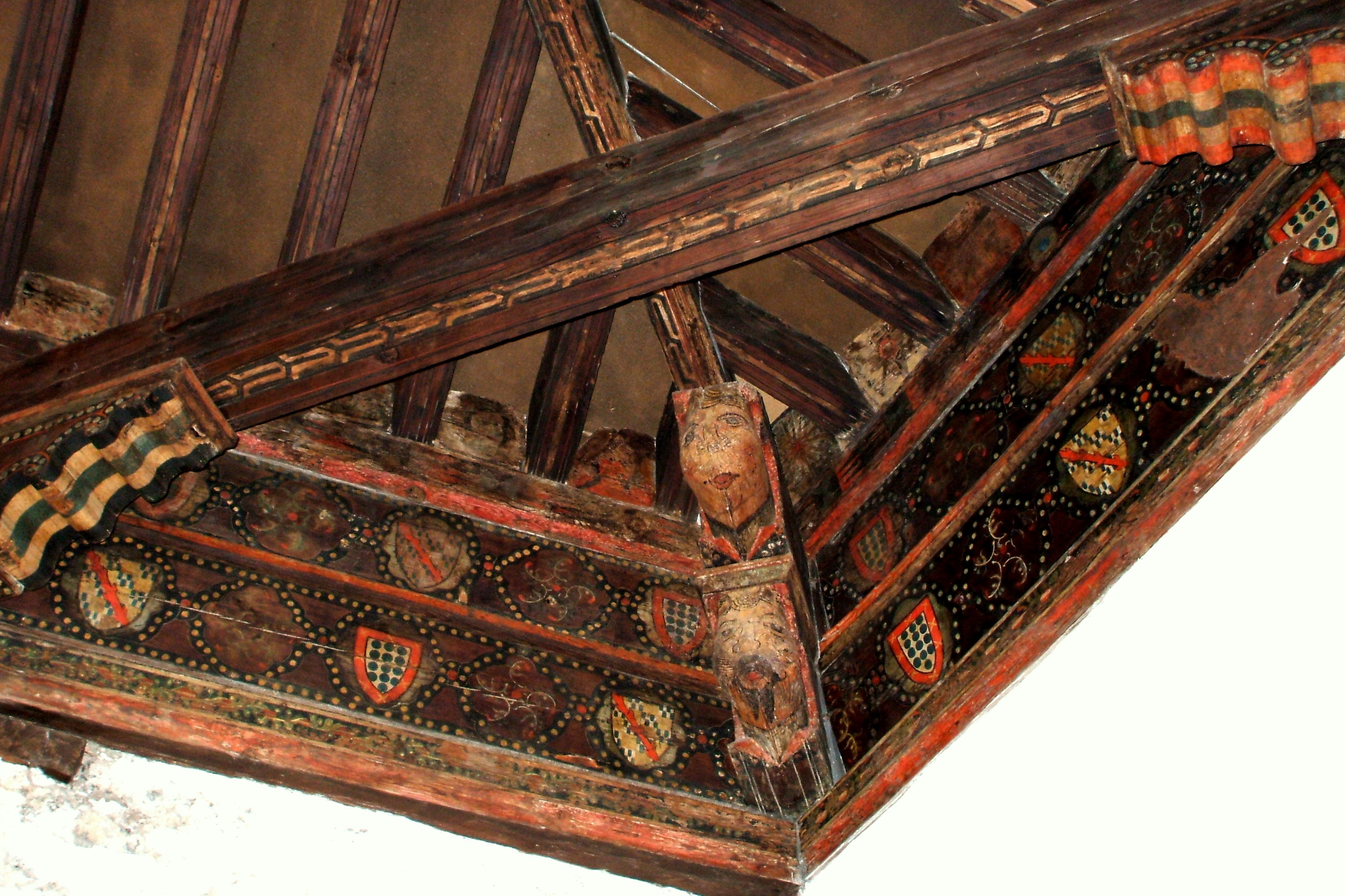 Palace of King Pedro I (Cuellar)